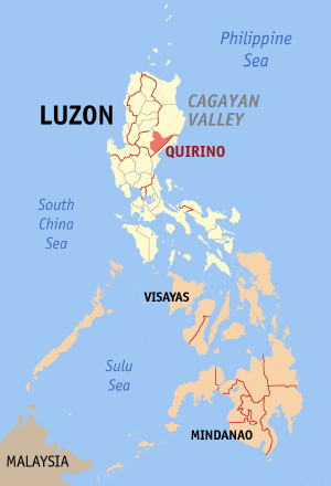 Map of the Philippines showing the location of Quirino